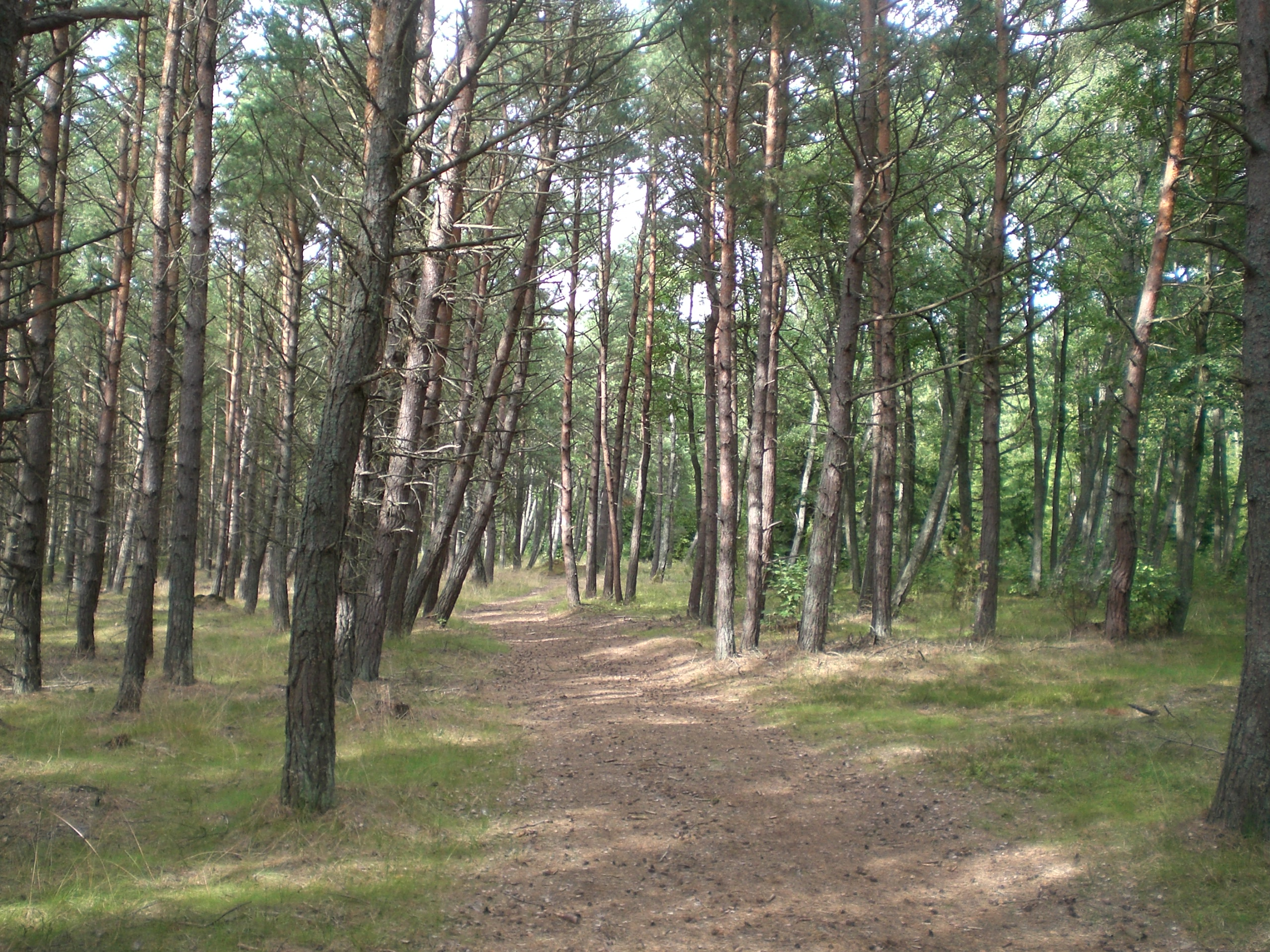 Nida on the Kurischen Nehrung in Lithuania